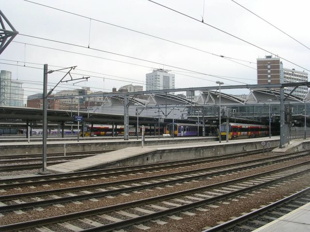 Leeds City Station